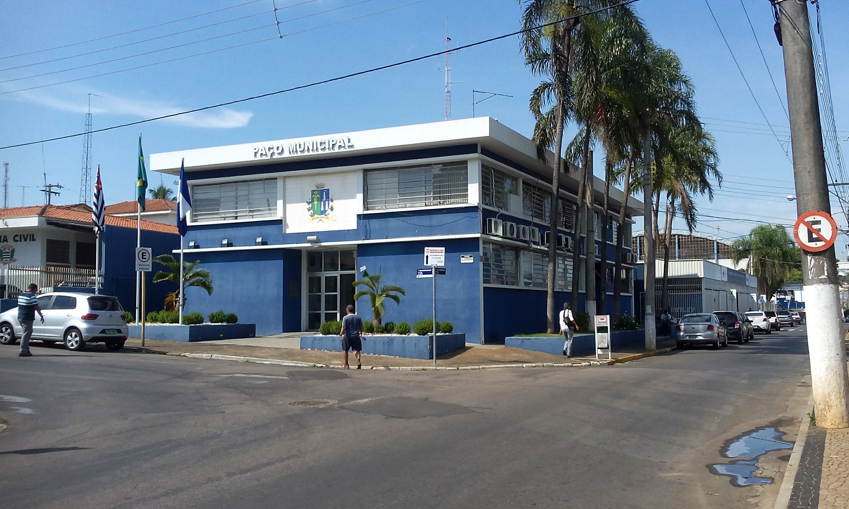 Laranjal Paulista townhall.